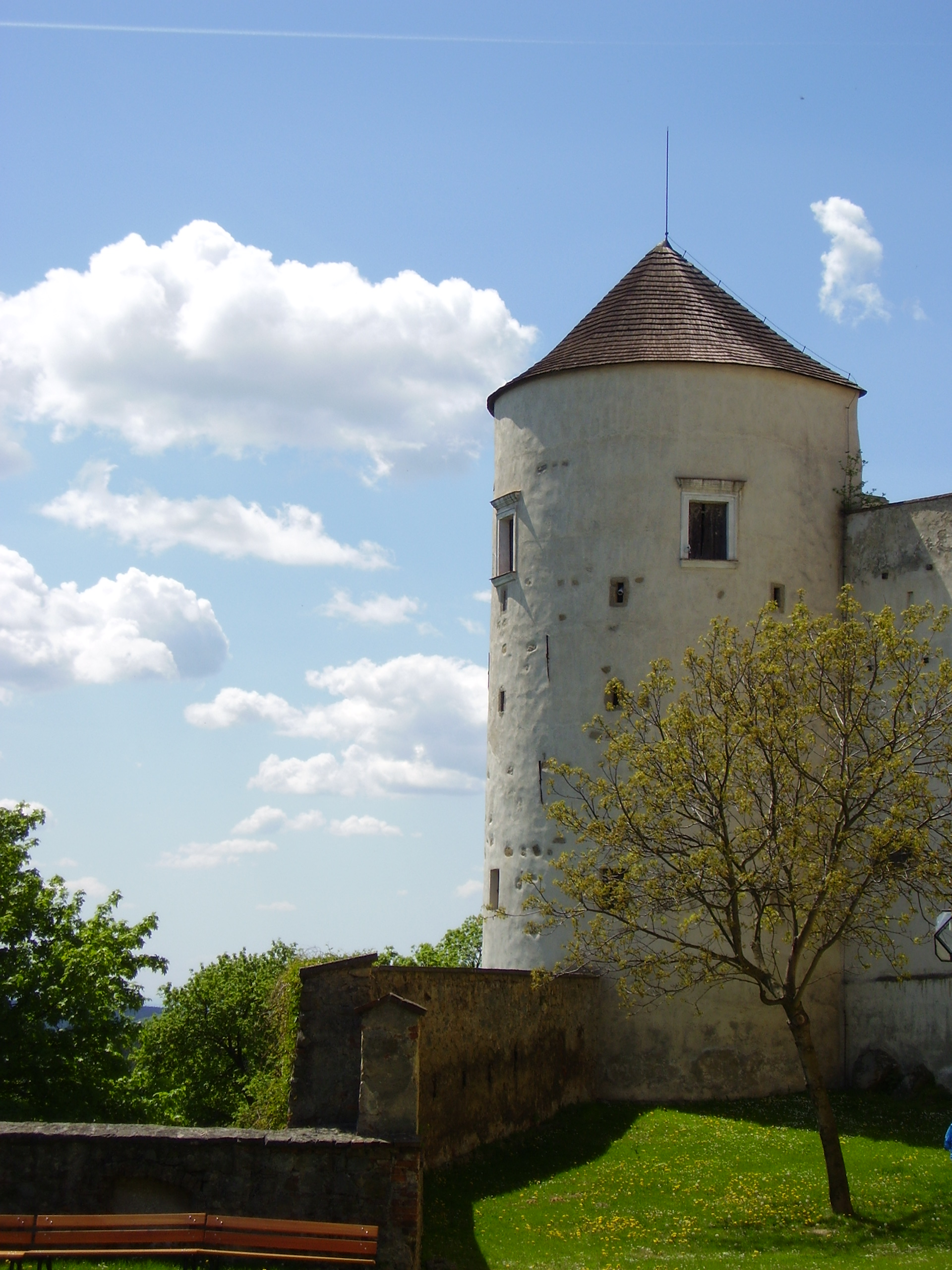 Tower Andělka of Buchlov castel